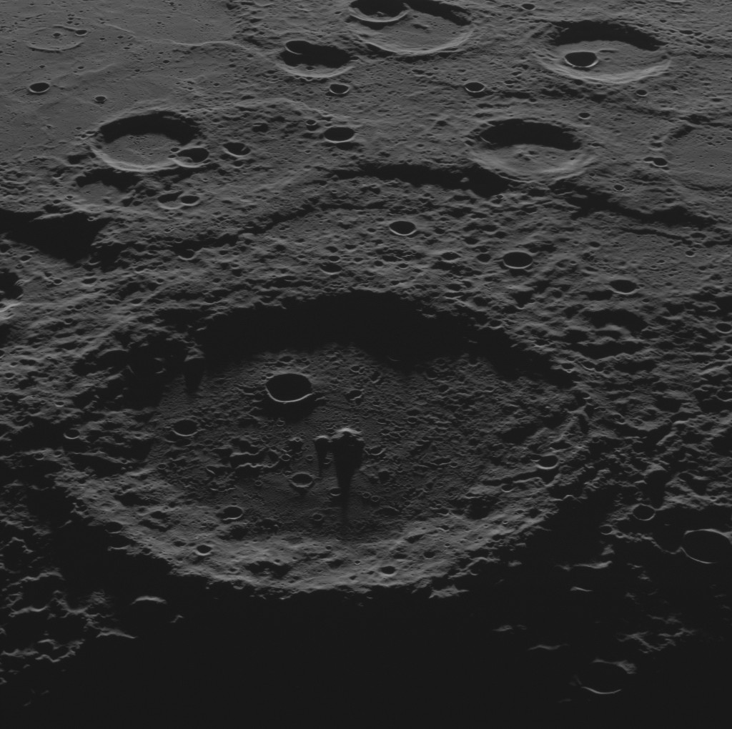 Oblique view of Derzhavin crater on Mercury. MESSENGER Wide Angle Camera image. North is at left. Emission Angle: 53.7 Incidence Angle: 87.1 Latitude: 45.4 Longitude: 324.4 Phase Angle: 140.8